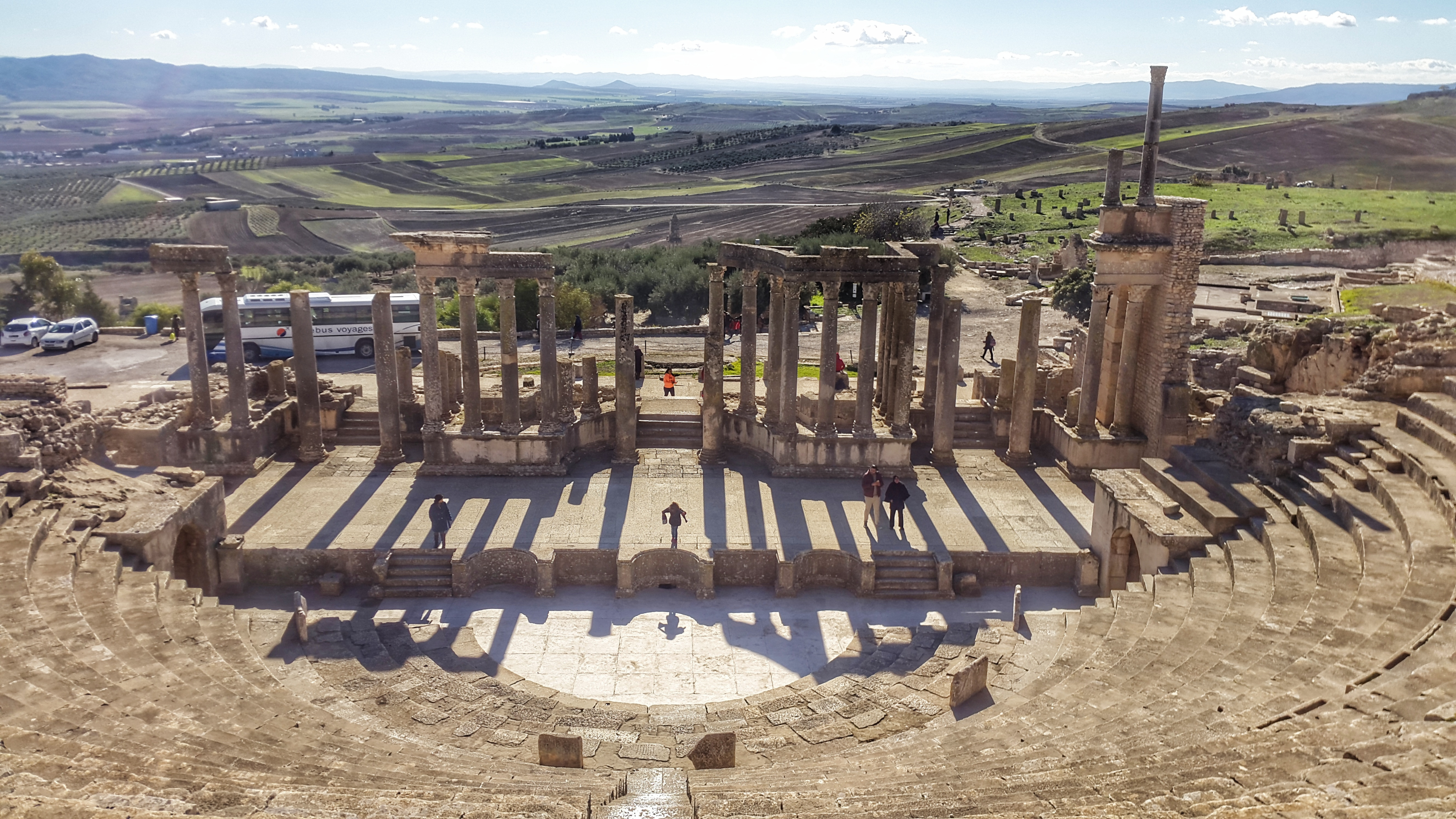 amphitheatre de dougga